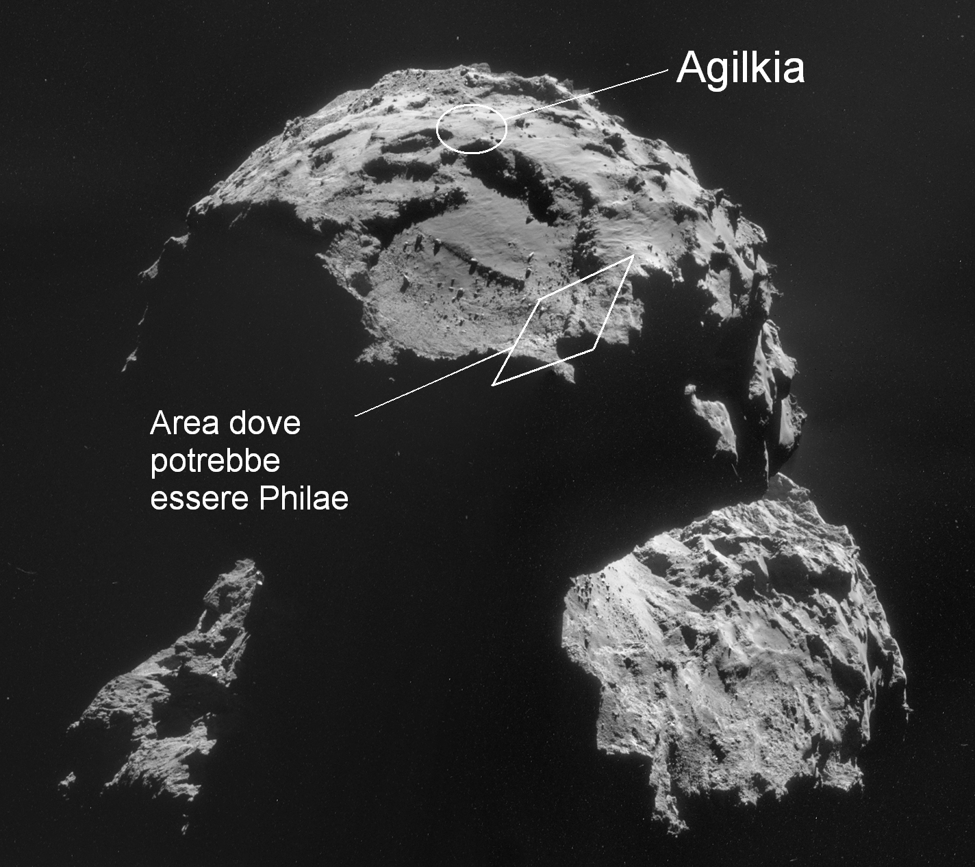 The Agilkia landing site is seen on this image of comet 67P/Churyumov–Gerasimenko, taken with Rosetta’s navigation camera on 6 November, just days before its lander Philae makes its historic descent to the surface. The image presented here is a mosaic of four individual NavCam frames, captured from a distance of 30.5 km from the comet centre on 6 November 2014 while Rosetta was en route to the separation trajectory from which it will deploy Philae on 12 November 2014. At this distance, the image scale is 2.6 m/pixel, and the mosaic measures 3.7 x 3.3 km. The landing site, covering about one square kilometre, is located close to the top of this image, above the easily recognisable, boulder-filled depression that characterises the smaller of the comet’s two lobes. Although it may not seem like it from this image, Agilkia – previously known as Site J – presented the least hazardous terrain of all the landing sites considered during the selection process. Much of the surface of the comet is covered in boulders – some larger than houses – as well as steep slopes, deep pits and towering cliffs. In the lower part of this image, the narrowness of the neck region connecting the two lobes is emphasised, with the rugged terrain of the larger lobe in the background. On 12 November 2014, Rosetta will release Philae from an altitude of 22.5 km from the comet centre at 08:35 GMT/09:35 CET, with signals confirming deployment arriving at Earth 28 minutes later. Philae will take about seven hours to descend to the surface, with the signal confirming a successful touchdown expected to arrive on Earth in a one-hour window centred on 16:02 GMT/17:02 CET. Follow the landing events live via esa.int/rosetta. The four individual images making up this mosaic are available via the blog.